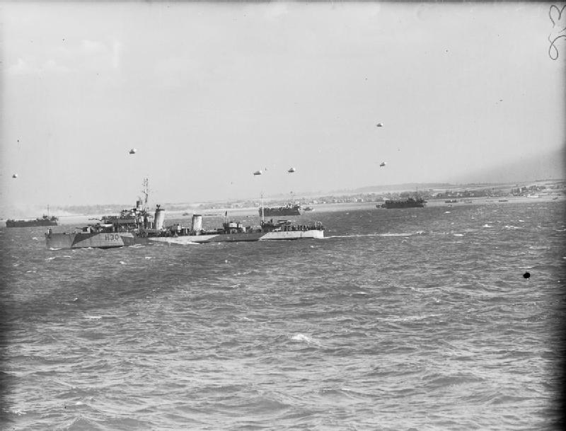 Operation Overlord (the Normandy Landings)- D-day 6 June 1944 Bombardment from the sea: The destroyer HMS BEAGLE moored off GOLD Area, as landing craft make for the beaches.